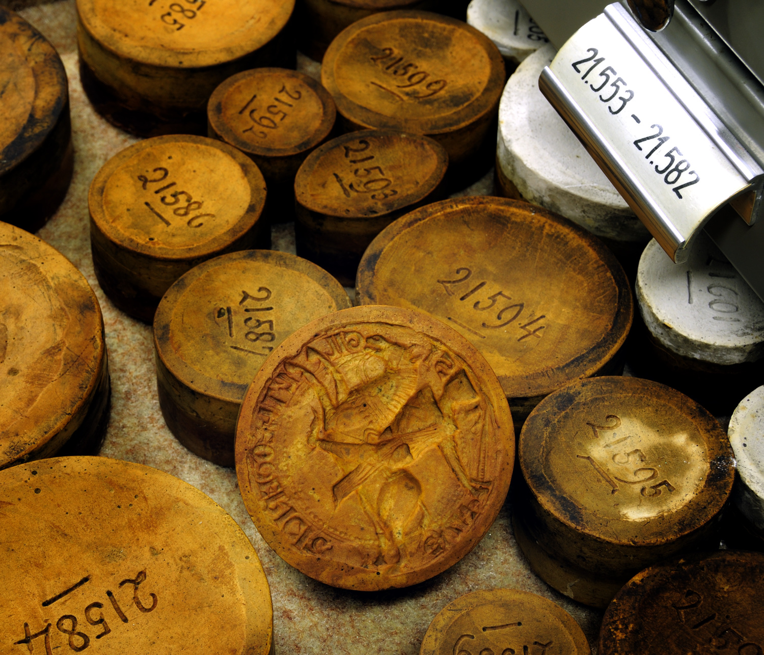 Casts of Seals of the State Archives in Belgium.